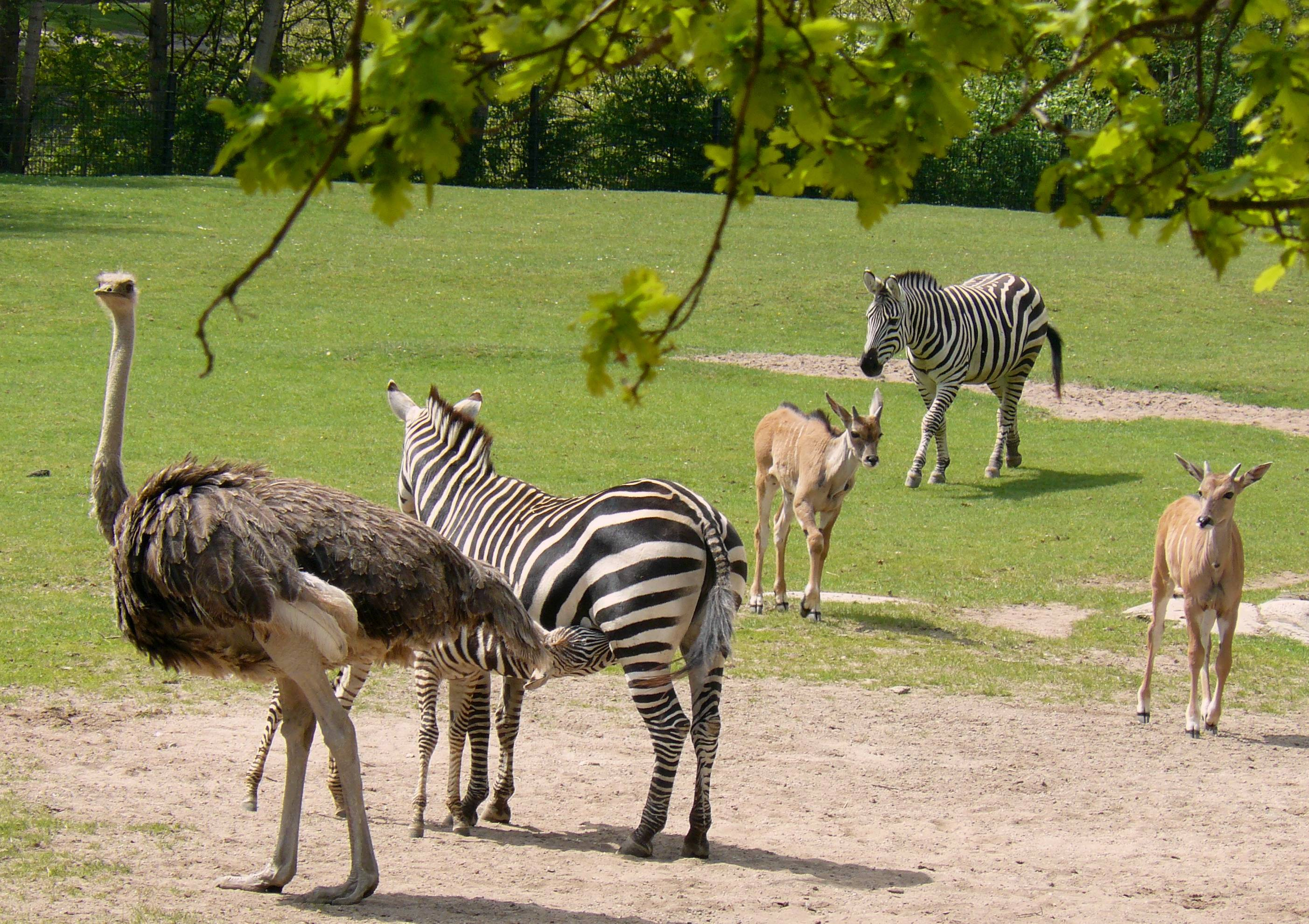 Grant's zebras (Equus quagga boehmi), juvenile East African eland (Tragelaphus oryx pattersonianus) and Southern ostrich (Struthio camelus australis), Tiergarten Nürnberg, Germany